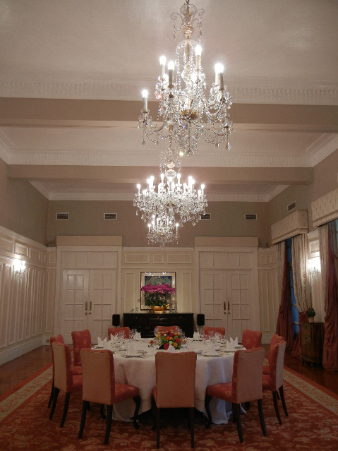 Hong Kong Government House Dinning Room